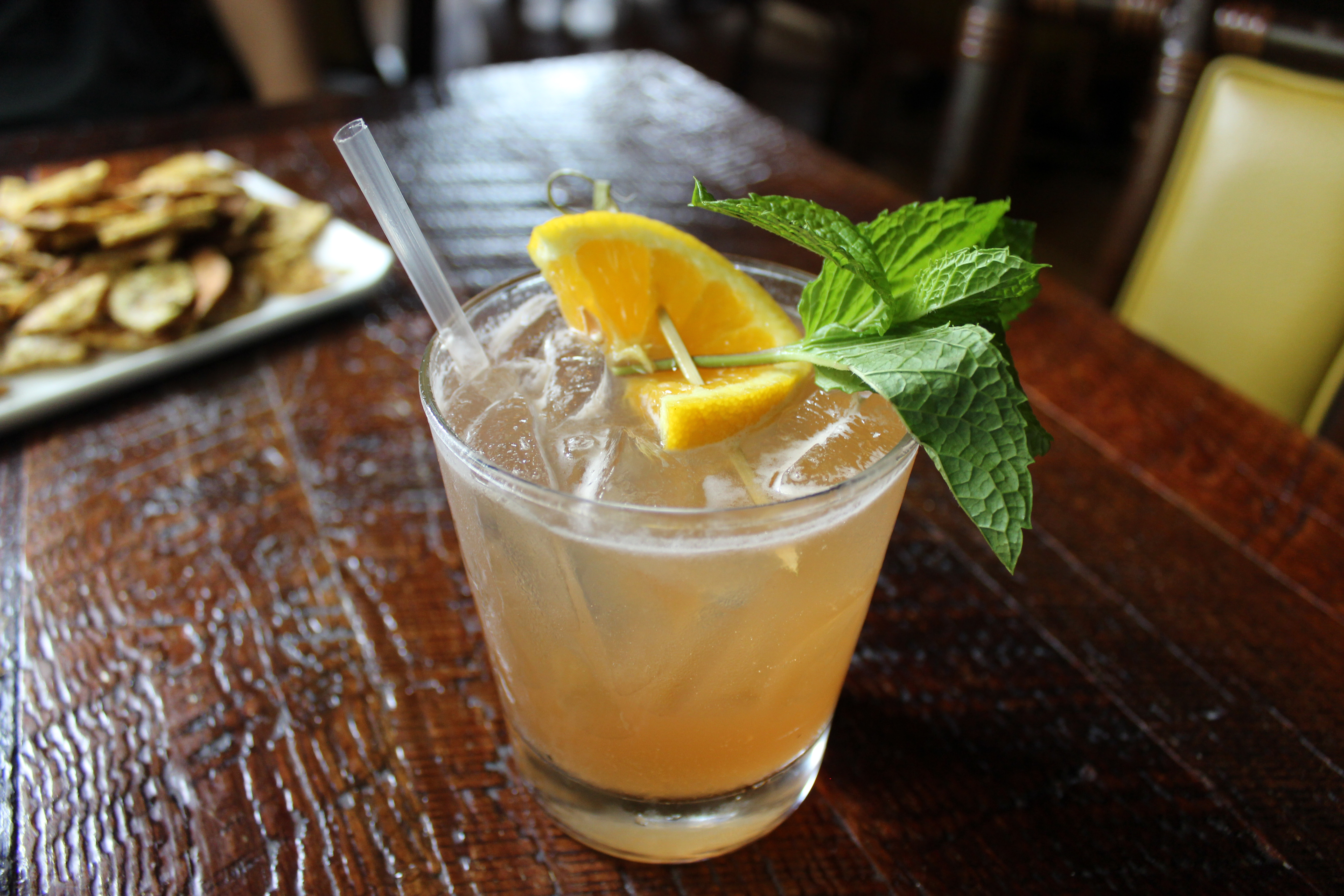 The Suffering Bastard cocktail, a WWII-era tiki drink, at Latitude 29 in New Orleans